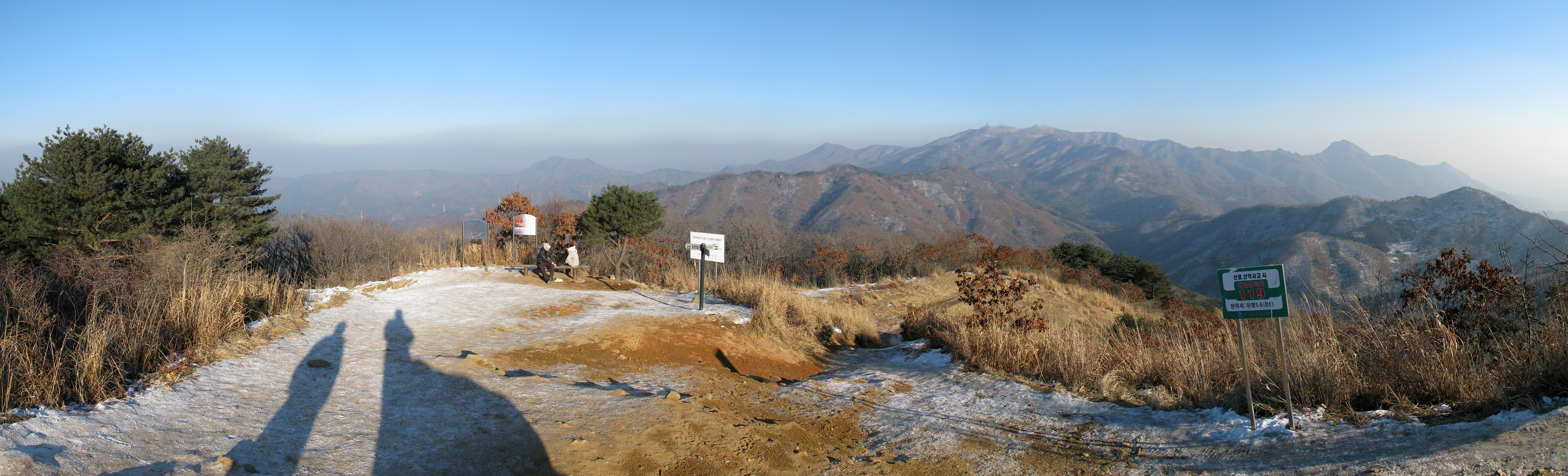 Panoramic View at Peak of Yumyeong Mountain